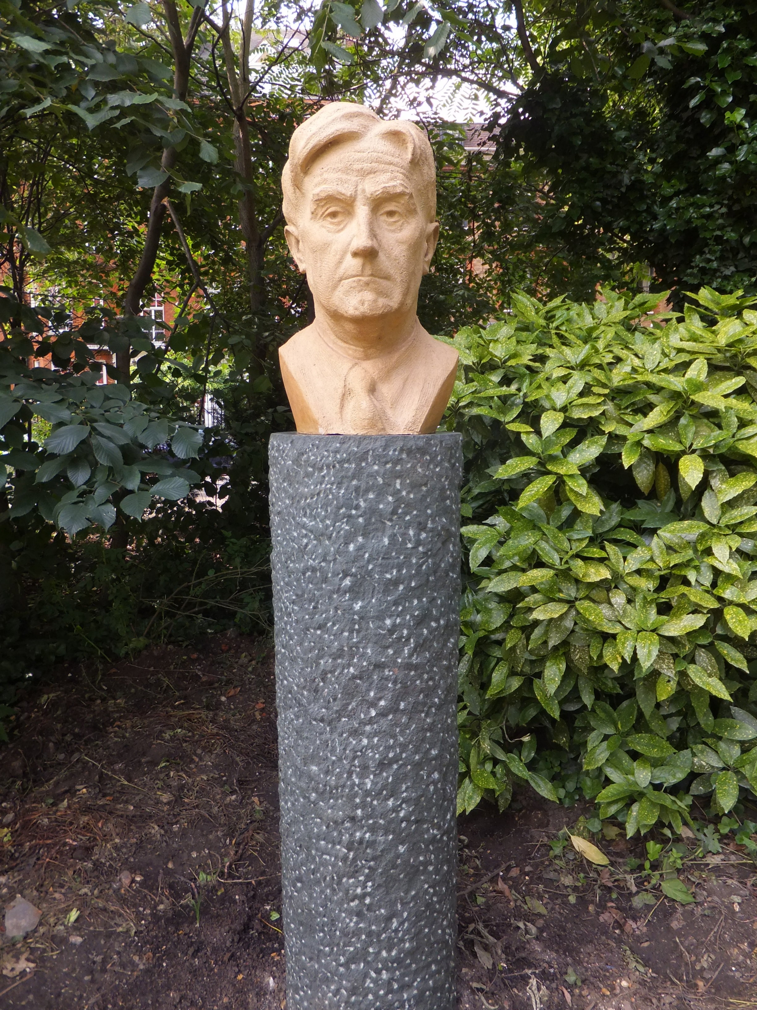 Bust of Ralph Vaughan Williams in Chelsea Embankment Gardens